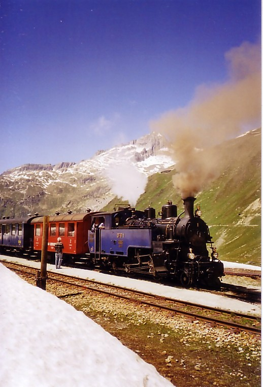 Muttbach-Belvedere Station (Furka Cogwheel Steam Railway), 2120 m above sea level